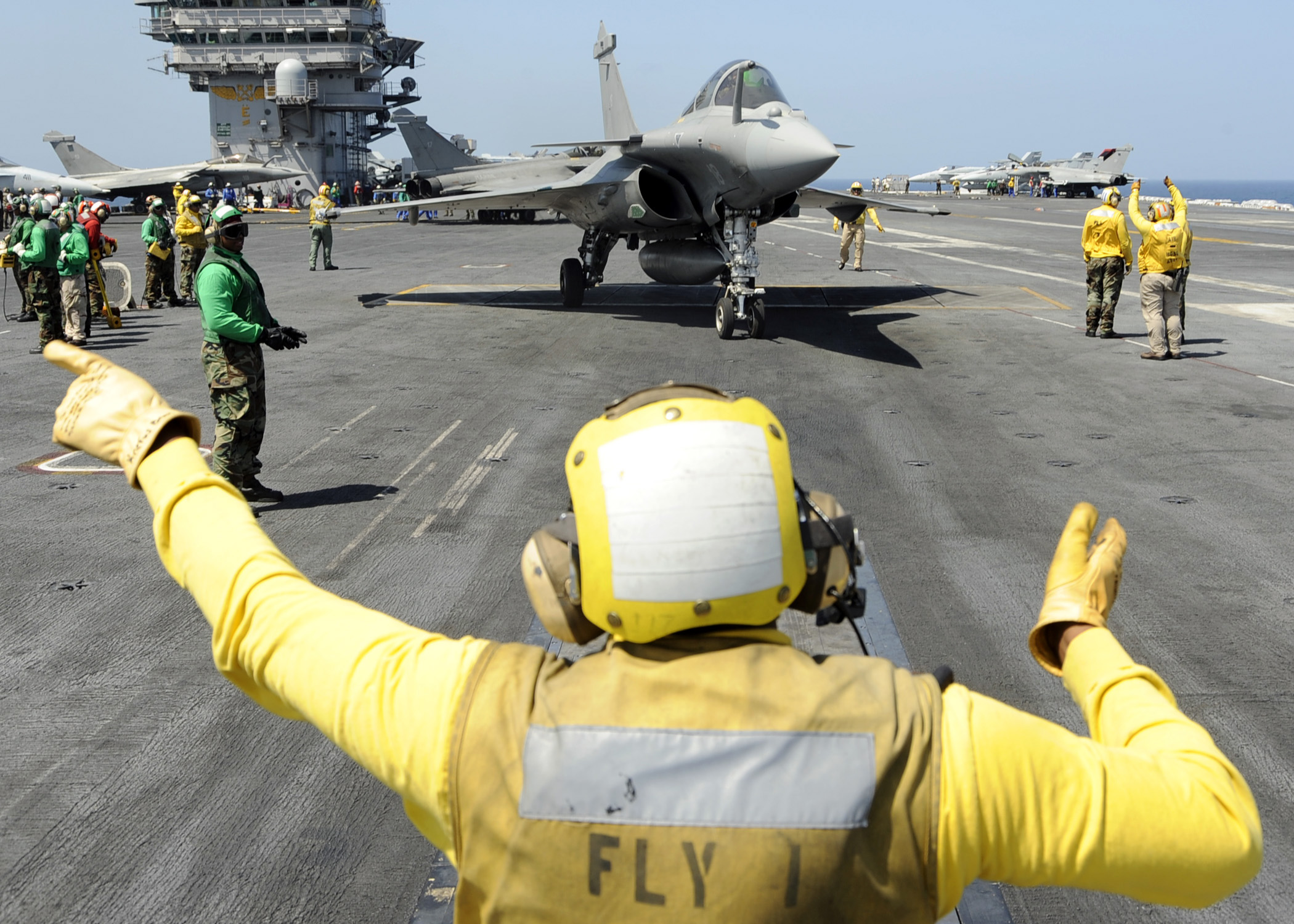 An Aviation Boatswain's Mate directs a French F-2 Rafale to a catapult during combined French and American carrier qualifications aboard the aircraft carrier USS Theodore Roosevelt (CVN 71). This event marks the first integrated U.S. and French carrier qualifications aboard a U.S. aircraft carrier. The Theodore Roosevelt Carrier Strike Group is participating in Joint Task Force Exercise "Operation Brimstone" off the Atlantic coast until the end of July.